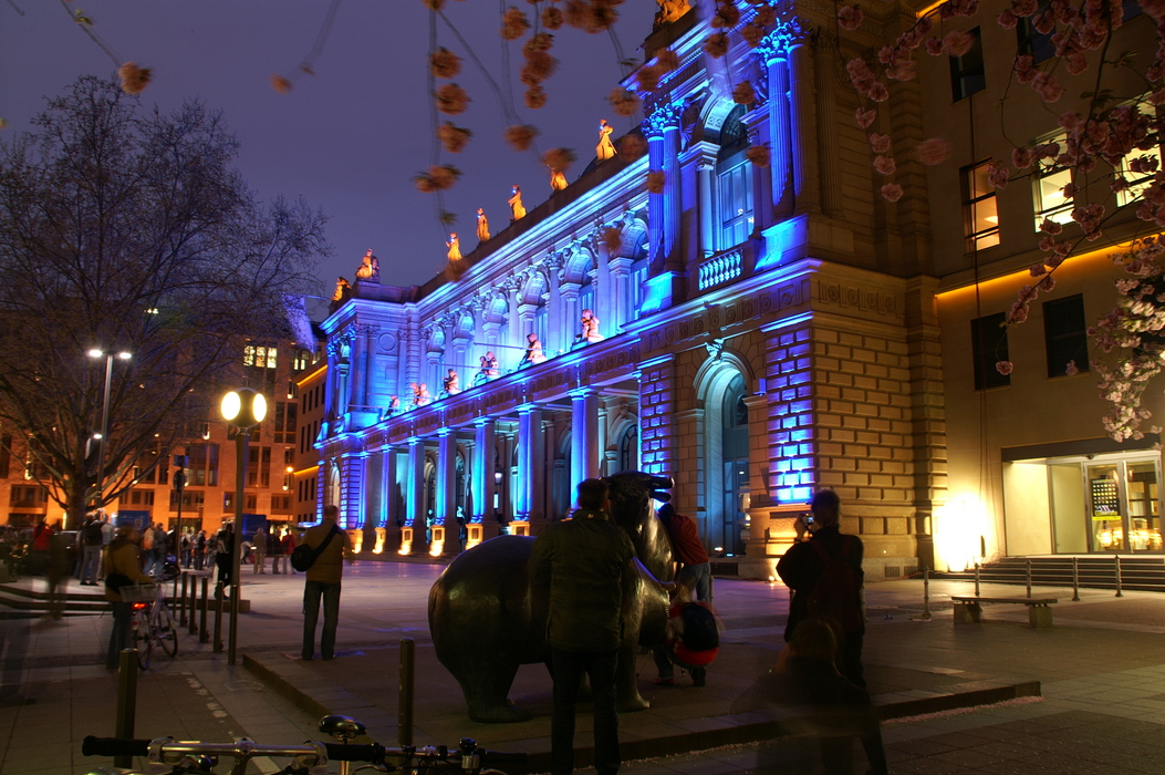 Stock Exchange Frankfurt (Börsenplatz) during 2006